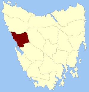 Location of the land district (formerly county) within Tasmania.